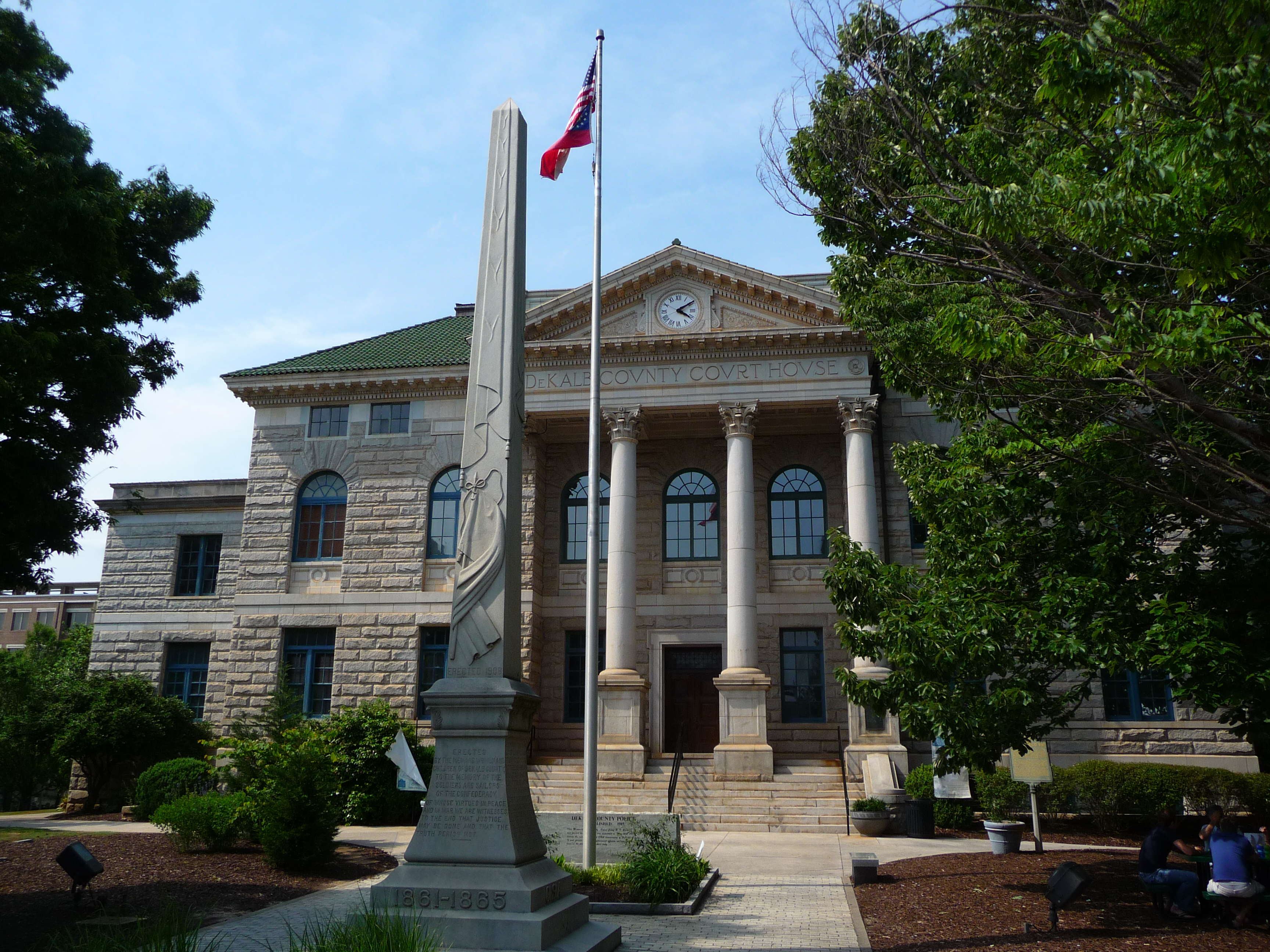 DeKalb County, Georgia Court House